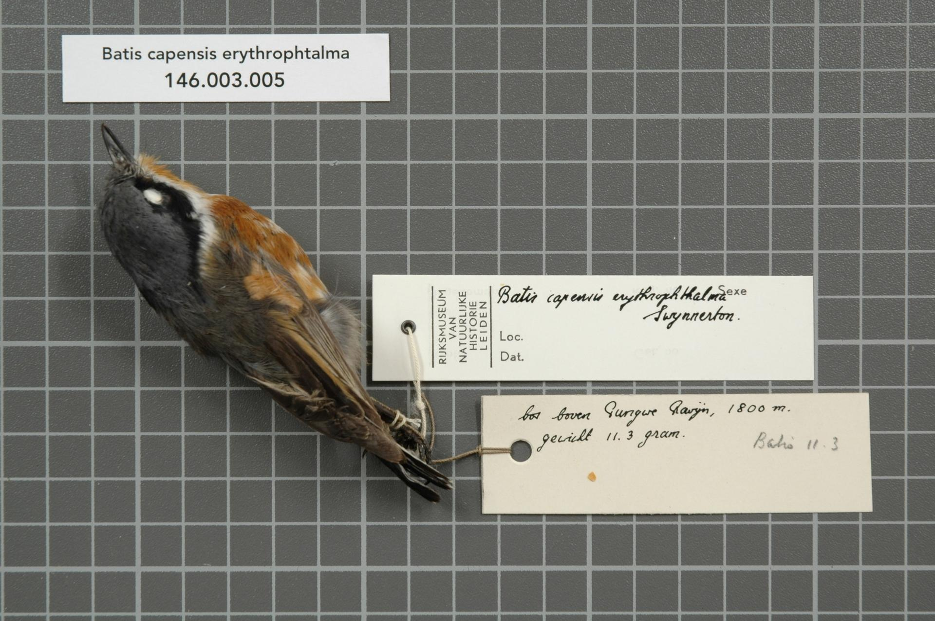 Batis capensis erythrophtalma Swynnerton, 1907